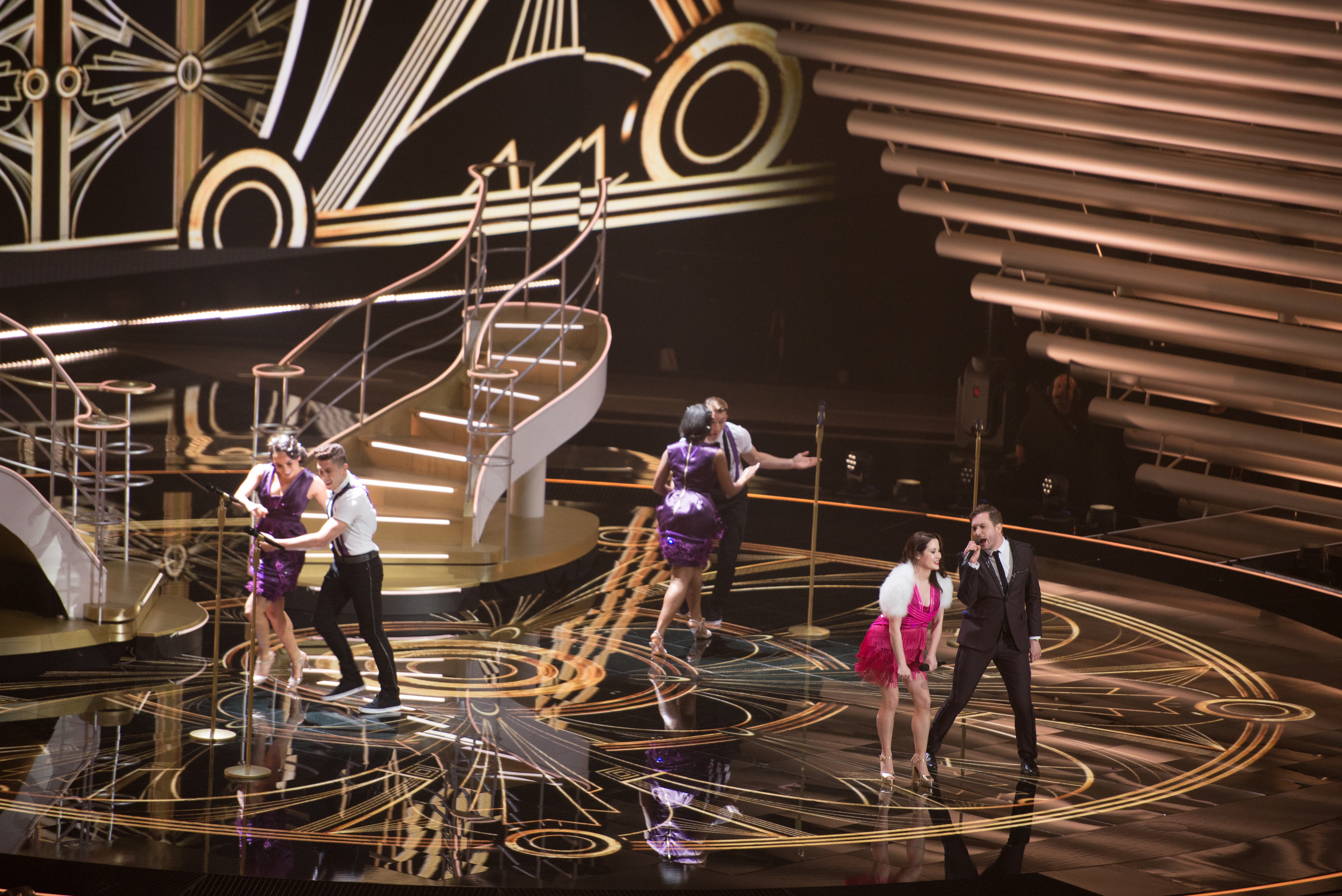 Eurovision Song Contest Vienna 2015: Electric Velvet